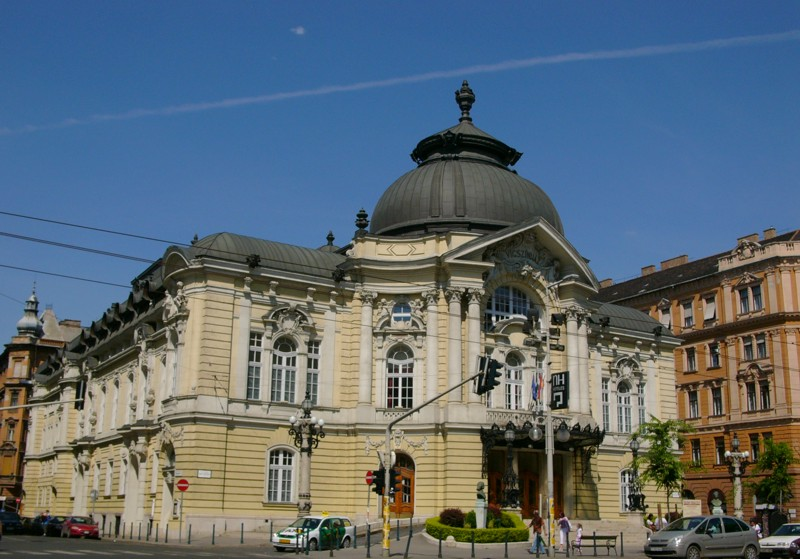 Comedy Theatre (hungarian Vígszínház), Budapest, Hungary